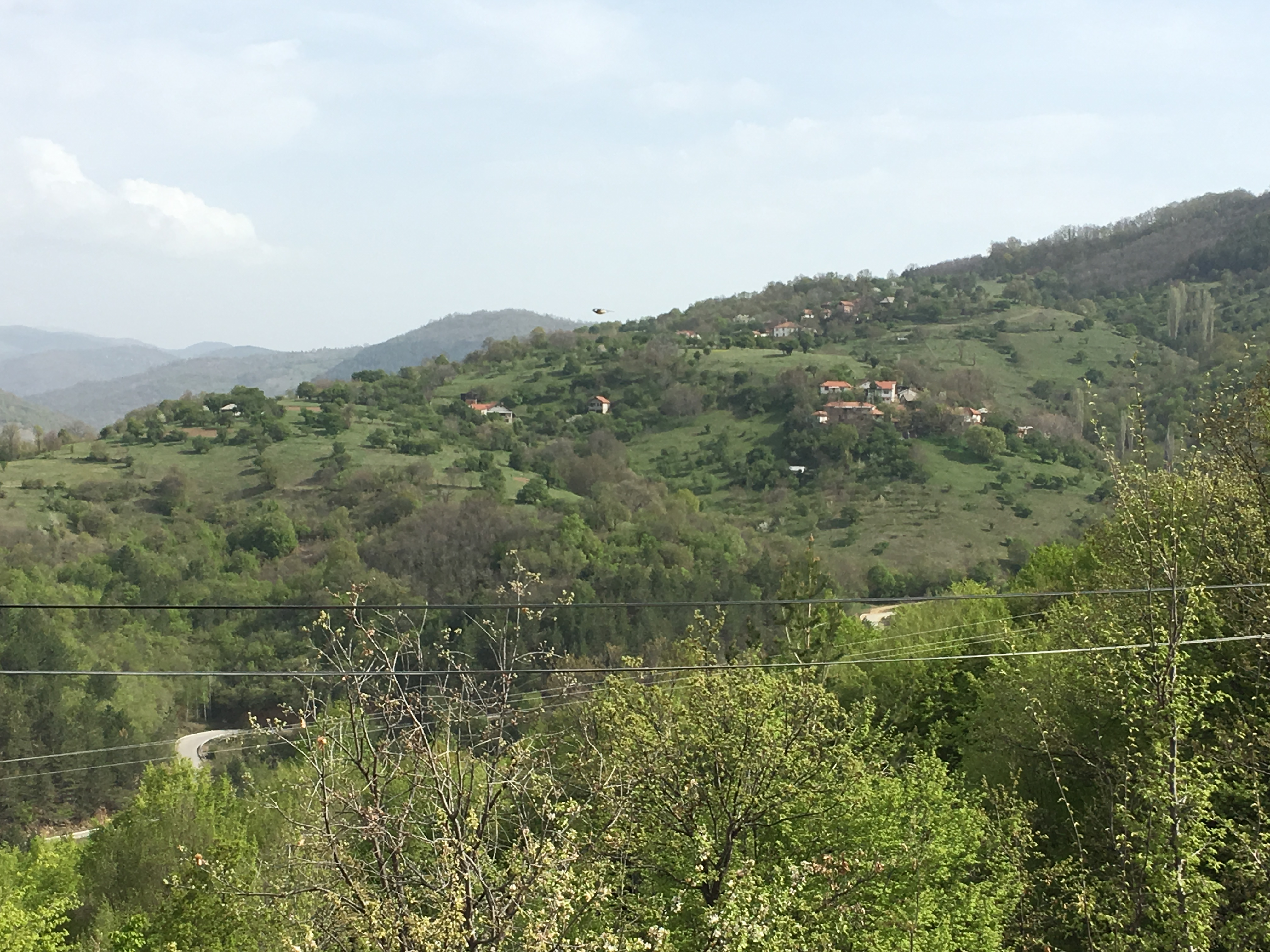 A view of the village of Varovište